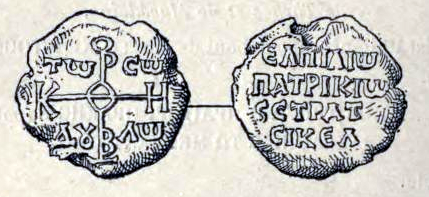 Seal of Elpidius, the Byzantine patrician and governor of Sicily who rebelled in 781/782